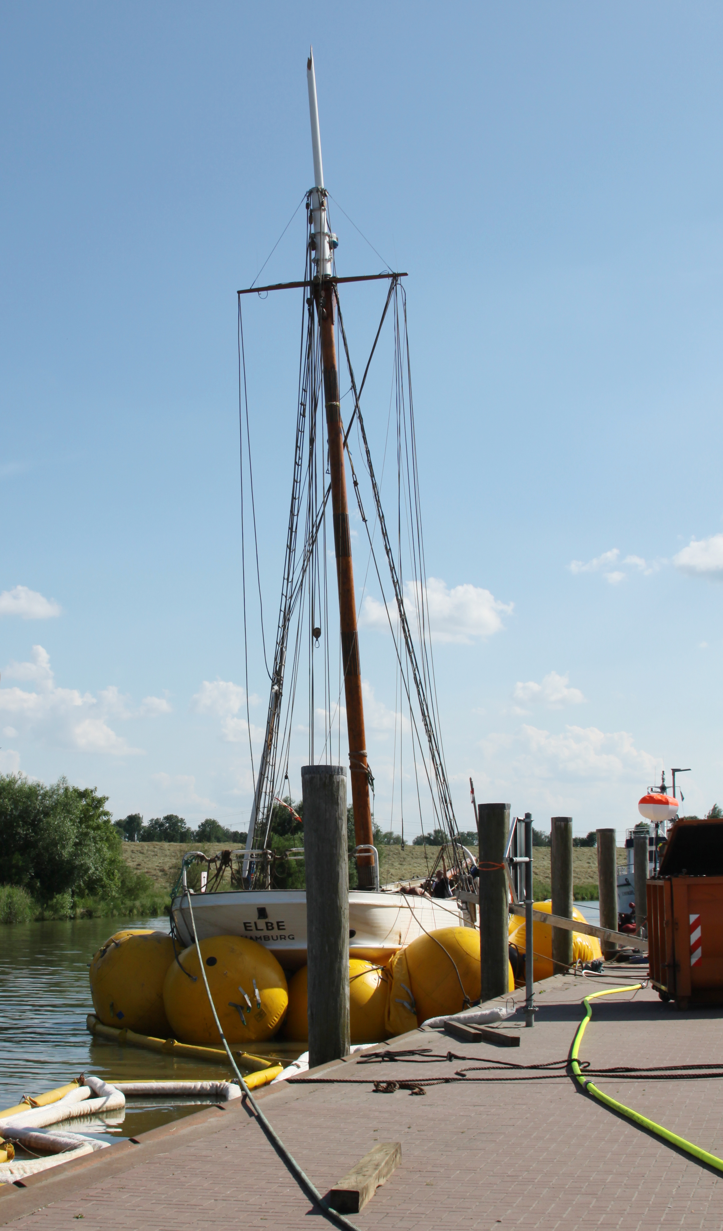 No. 5 Elbe getting salvaged at Stadersand